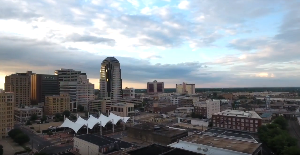 Skyline of Downtown Shreveport, La.